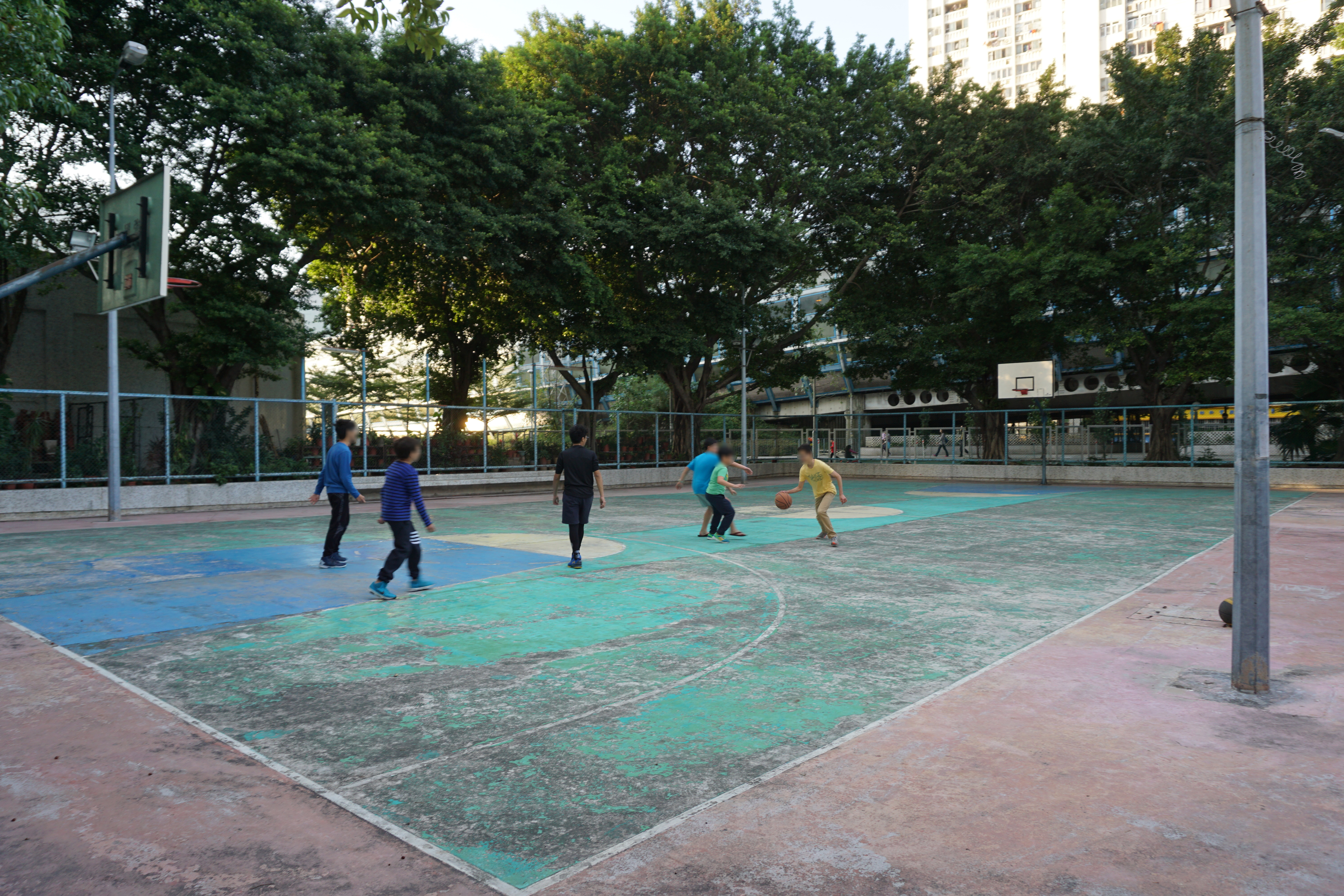 Tsui Ning Garden in Tuen Mun, Hong Kong.